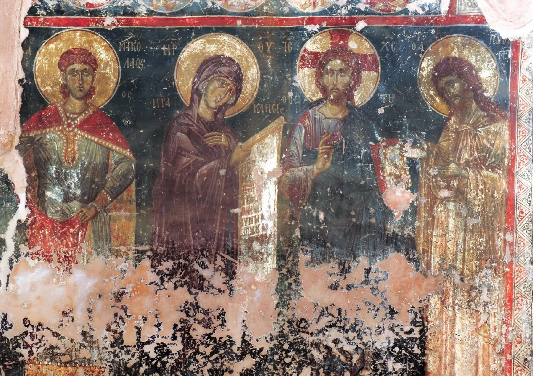 Saint Nicholas of Tzotzas Fresco